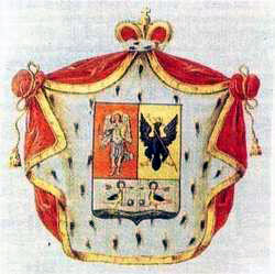 Coat of arms of the Obolensky - Repnin princely family